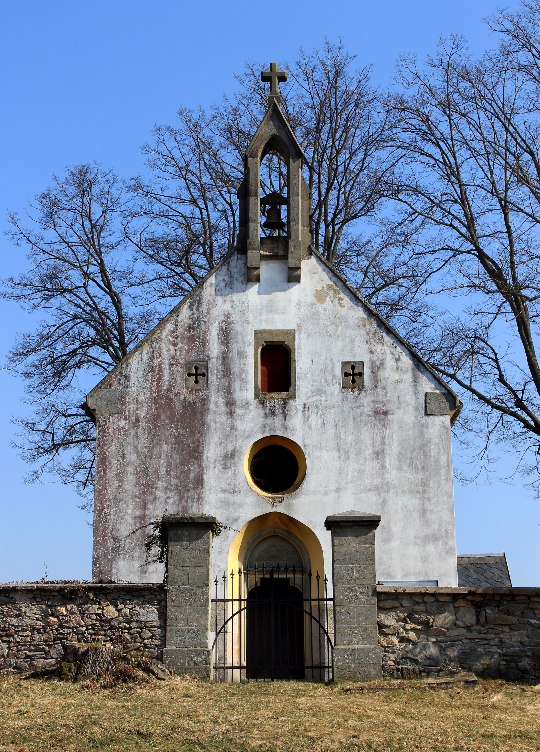 Saint Nicholas Church in Svatý Mikuláš, part of Vysočina village, Czech Republic.